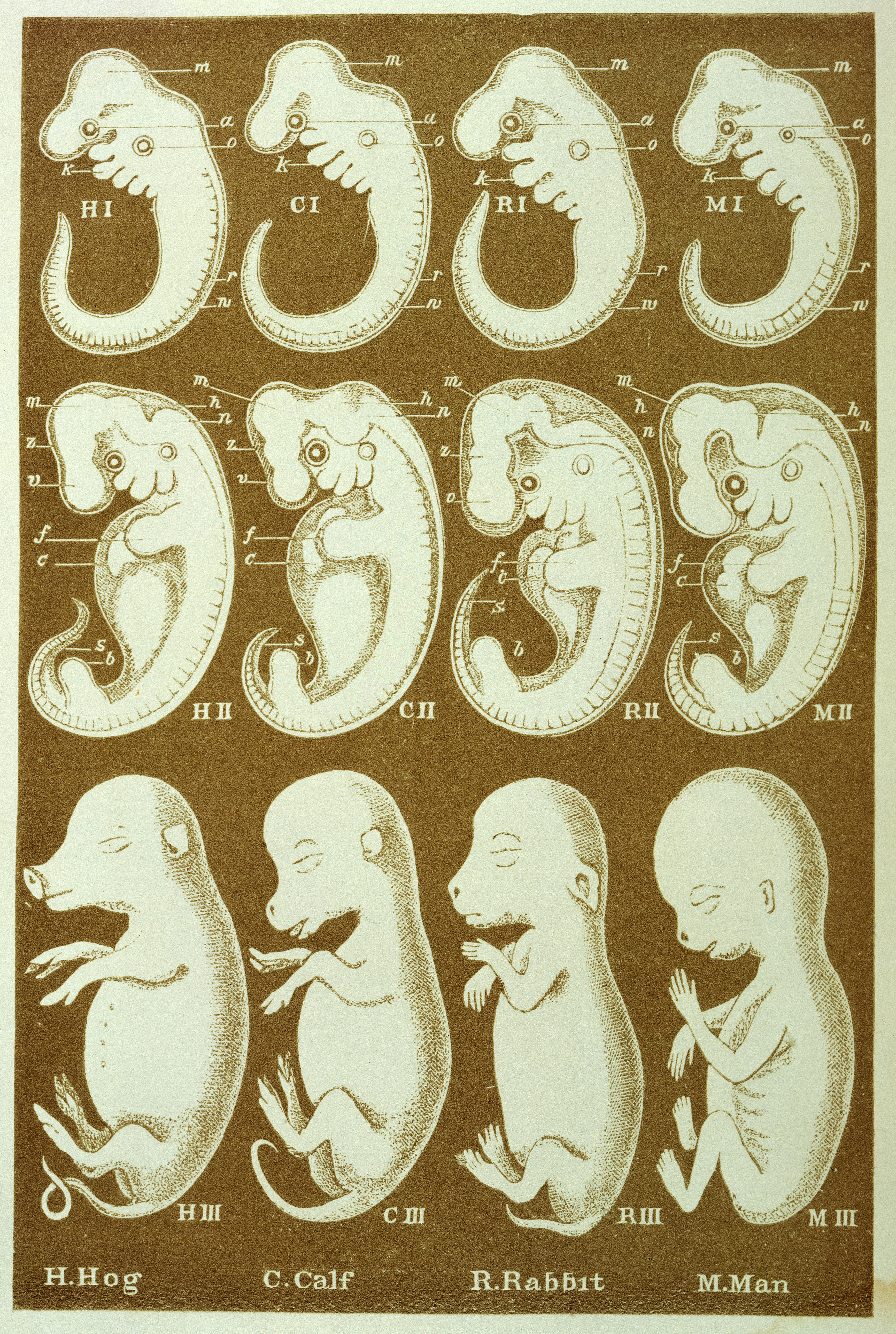 Haeckel's Evolution of Man. This plate shows the embryos of four mammals in the three corresponding stages: of a Hog (H), Calf (C), Rabbit (R), and a Man (M). The conditions of the three different stages of development, which the three crossroads (I,II,III) represent, are selected to correspond as exactly as possible. General Collections Keywords: Embryo; Evolution; Embryology; Animals; Embryonic Structures